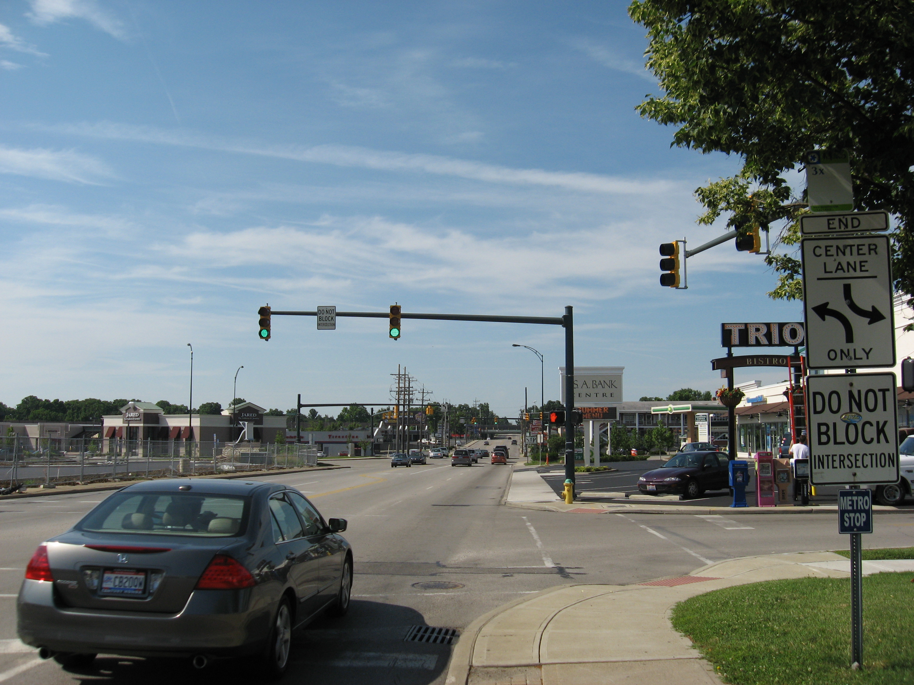 Downtown Kenwood (Galbraith Road) (Kenwood, Ohio, USA)